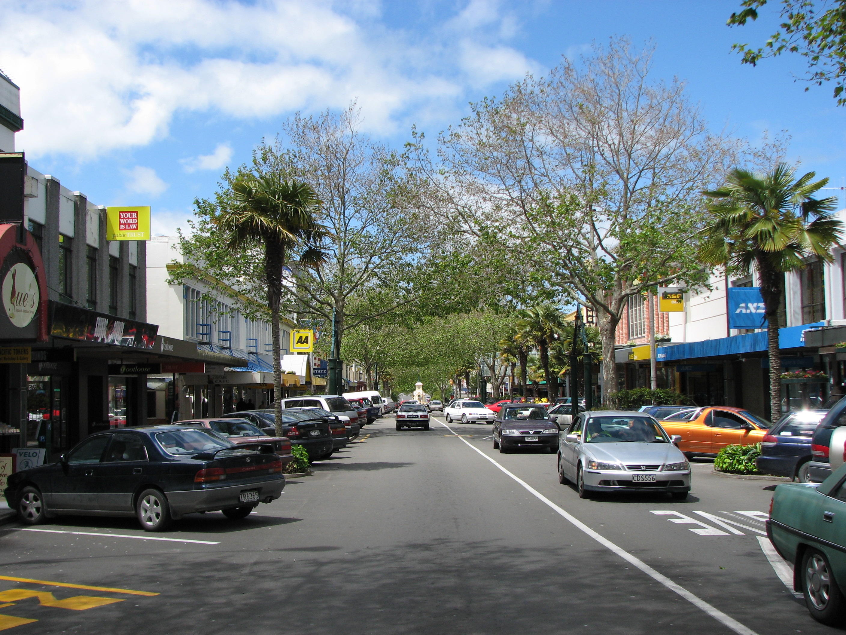 Victoria Avenue, Wanganui, New Zealand